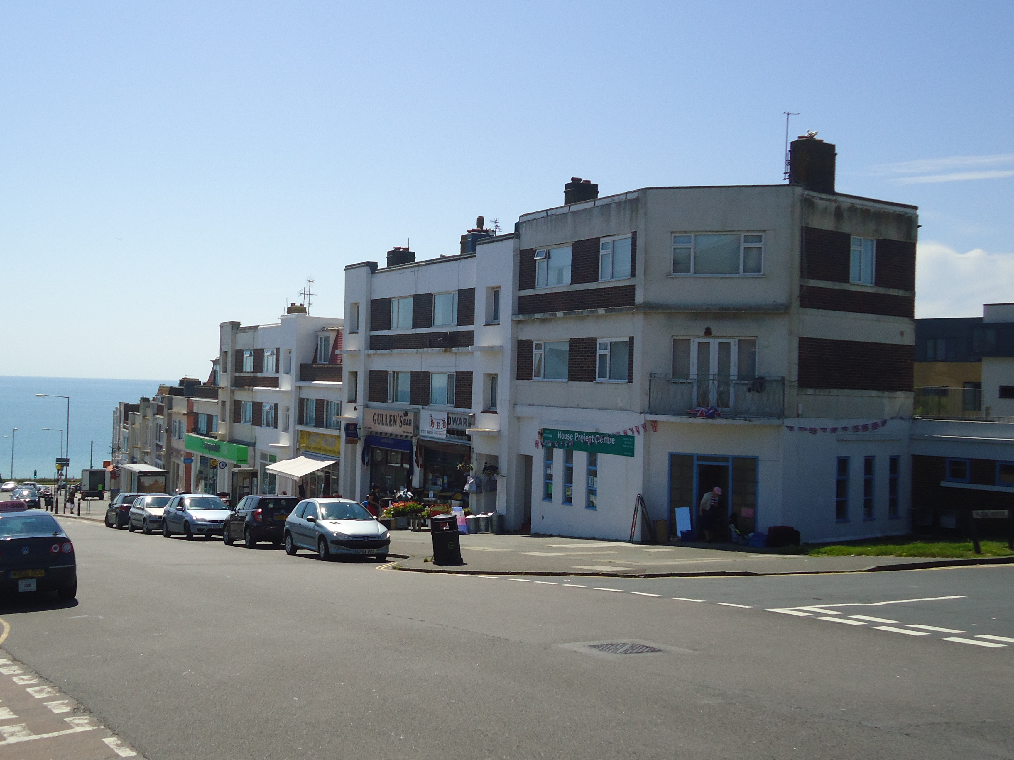 Longridge Avenue, Saltdean